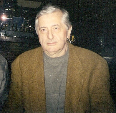 A photo of Serbian writer Čedomir Mirković.